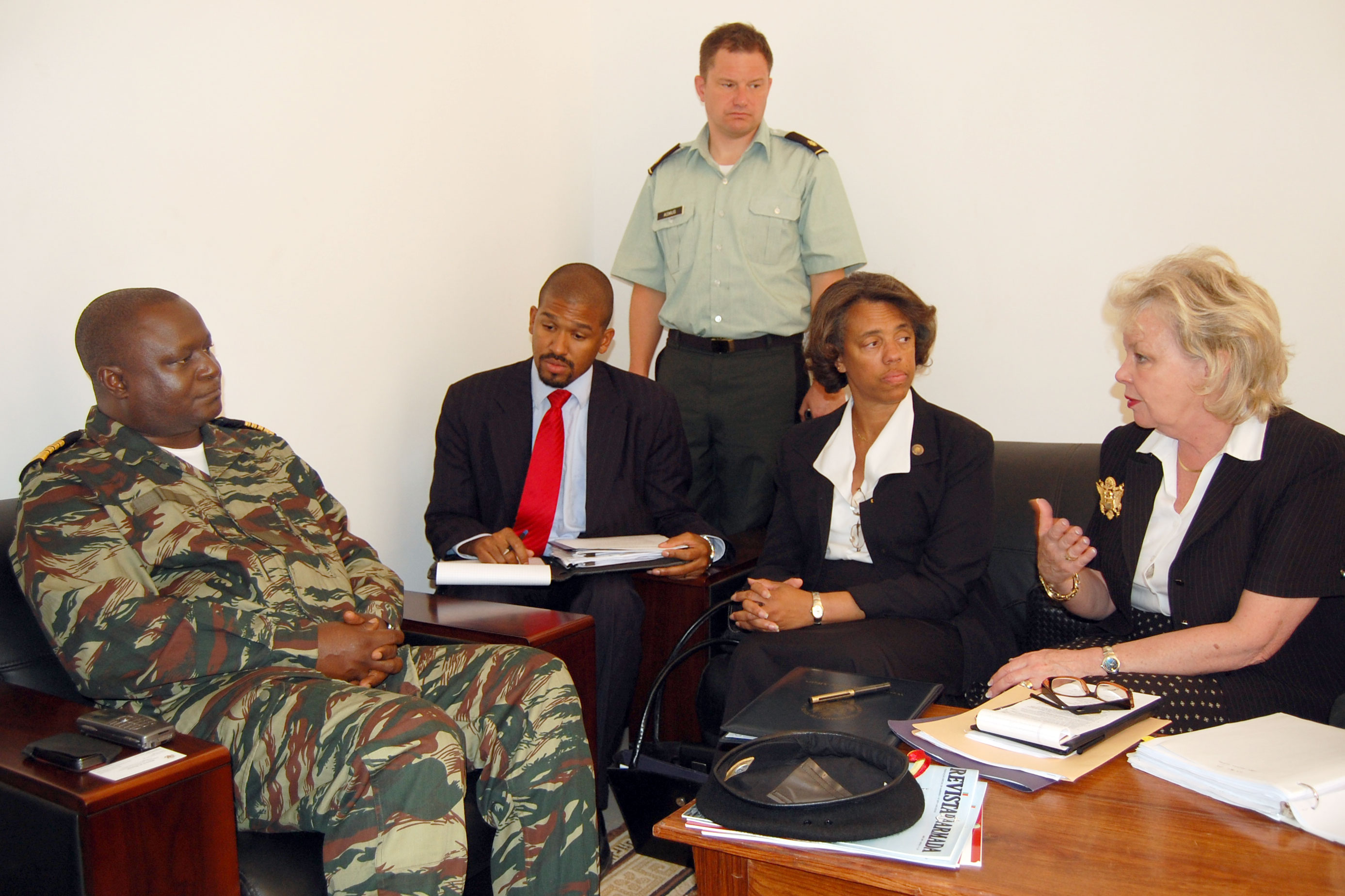 BISSAU, Guinea-Bissau - The new chief of Guinea-Bissau's military forces, Captain Jose Zamora Induta, meets with a visiting U.S. delegation April 23, 2009, to discuss upcoming elections following the March killings of the West African nation's president and former military chief. U.S. officers are, from right, Ambassador Mary C. Yates, civilian deputy of U.S. Africa Command; Ambassador Marcia Bernicat, U.S. Ambassador to Senegal and Guinea-Bissau; David Mosby of the U.S. Embassy and (standing) Major Karl Asmus of the U.S. Embassy. (Photo by Vince Crawley, U.S. Africa Command)